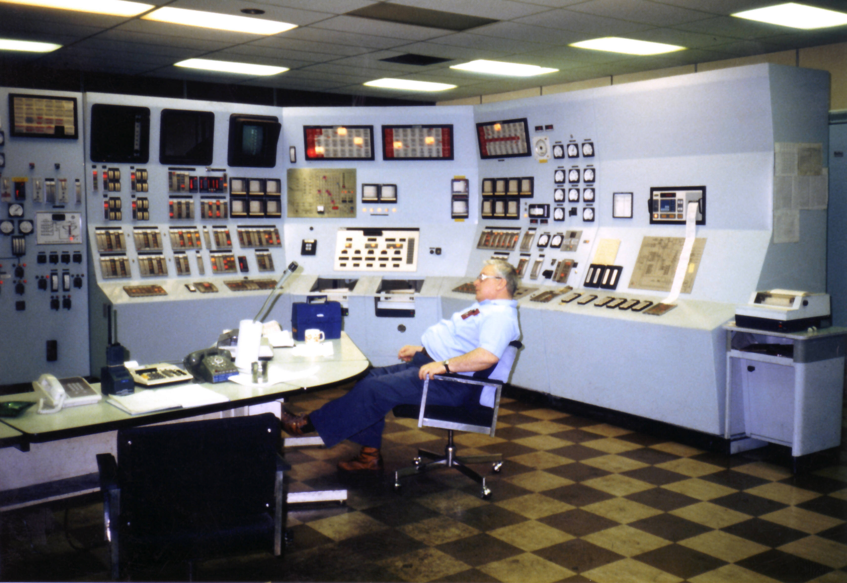 Control room in Fossil fuel power plant in Point Tupper, Nova Scotia. There are large openings beneath each cabinet, right through the 2 hour fire-resistance rated concrete slab. These were firestopped many years after the plant was commissioned.